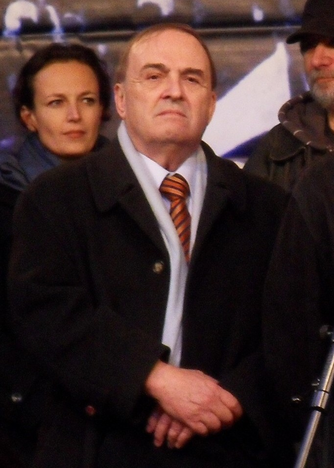 Jiří Gruša, czech poet, writer, politician and diplomat